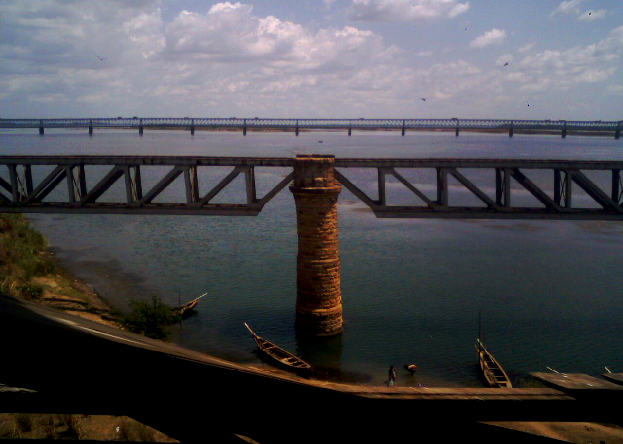 Havelock Old Railway bridge on Godavari River at Rajahmundry